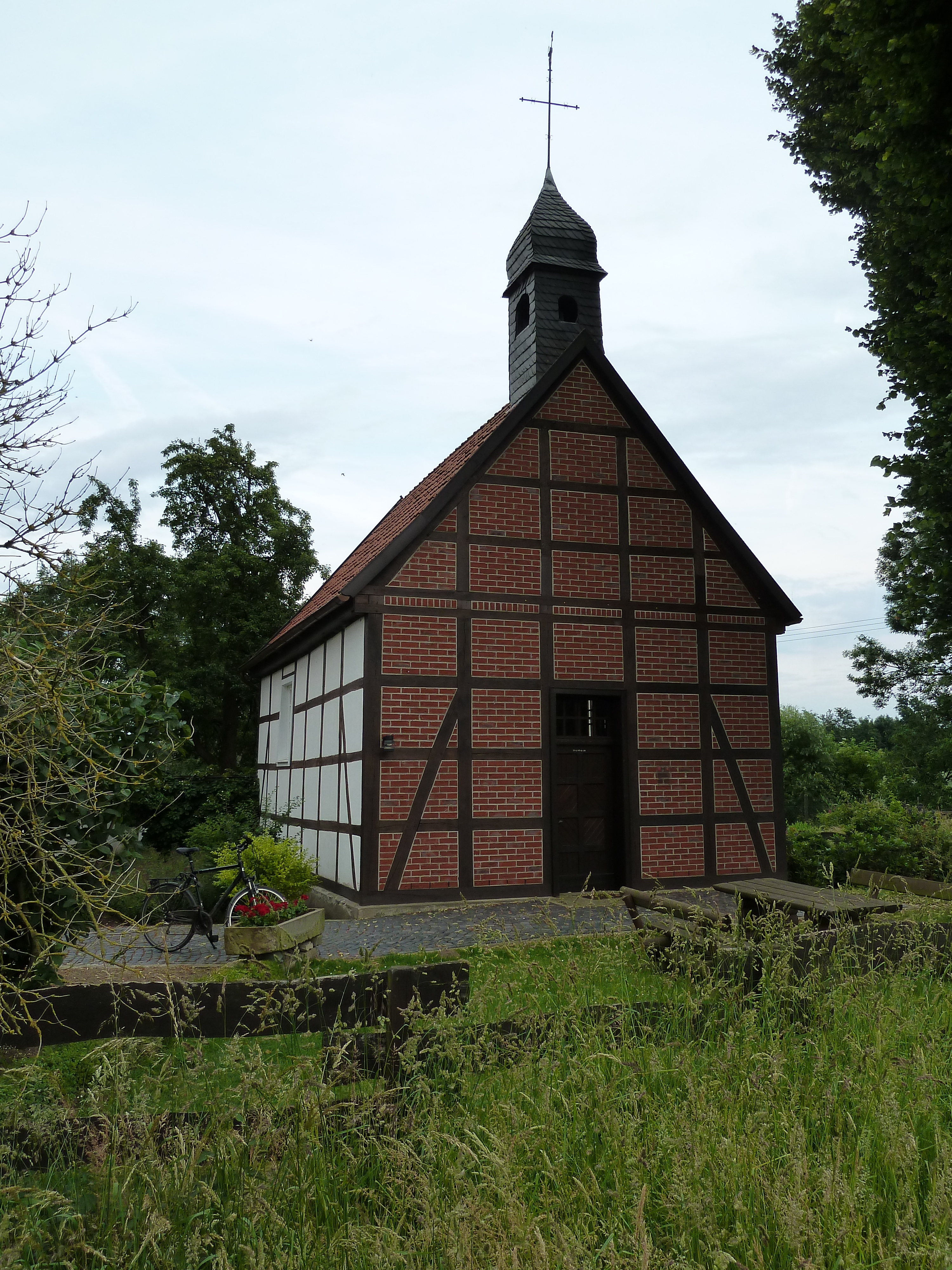 Chapel in Weckinghausen (Erwitte)